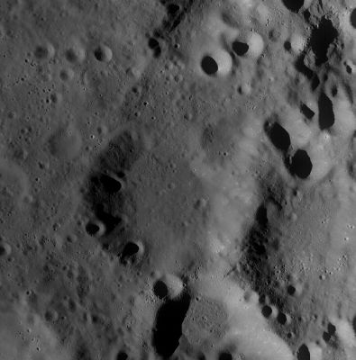 LROC image WAC No. M118499338ME. Calibrated by LROC_WAC_Previewer.